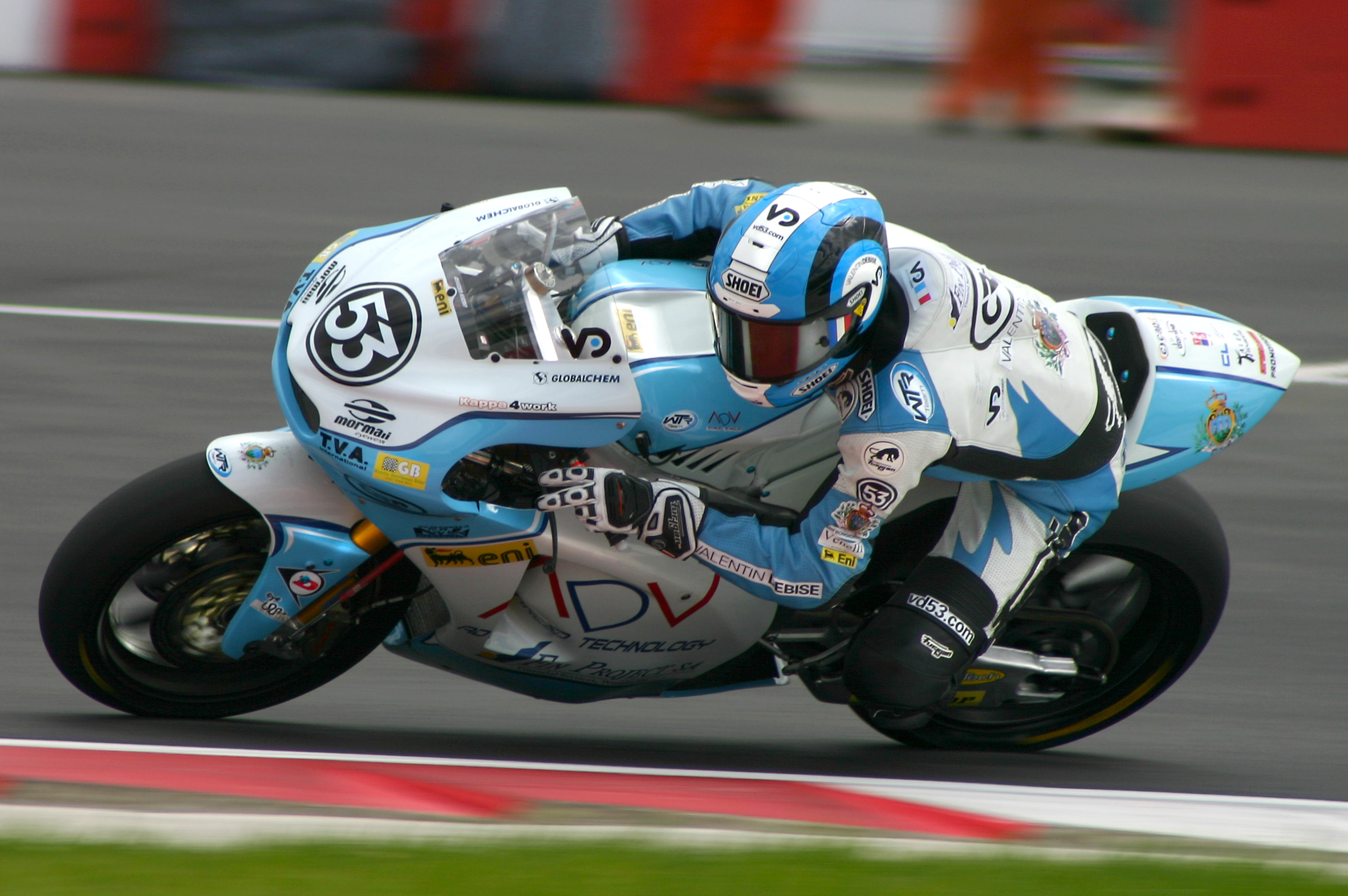 Valentin Debise 2010 Silverstone